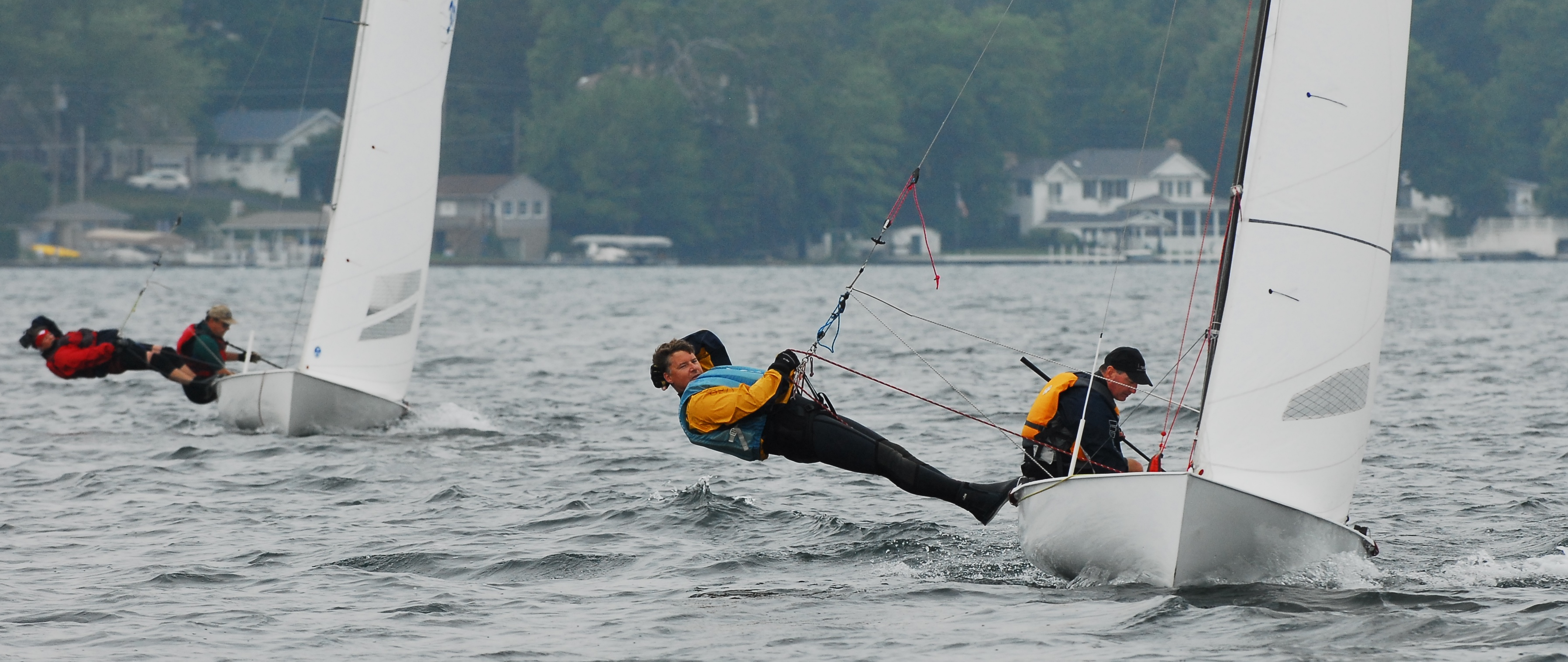 "Flying Dutchmans sailing on the first day of the 2008 Cannonball Regatta held at the Canandaigua Yacht Club in New York and sailed on Canandaigua Lake." (description from photographer) Sailors from left: Anna Gorbold and helmsman Jonathan Gorbold (USA 367) and Pavel Ruzicka and helmsman Paul Scoffin (NZL 145). [identified according to the list of participants on the website of the Canandaigua Yacht Club (pdf file)]